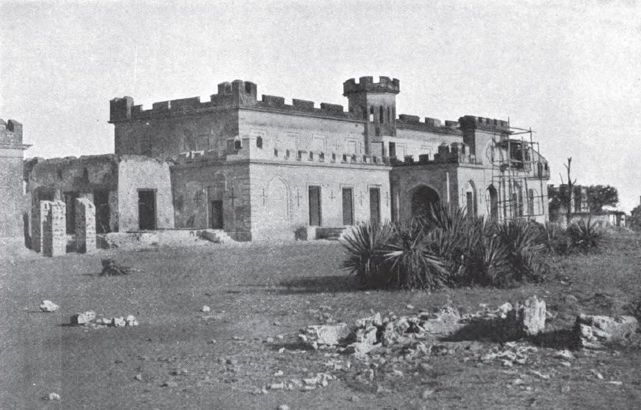 Ludlow Castle, Delhi, which had been damaged during the Indian rebellion of 1857, being repaired after the British retook Delhi in September 1857. Uploaded by Fowler&fowler (talk) 10:32, 28 September 2011 (UTC)